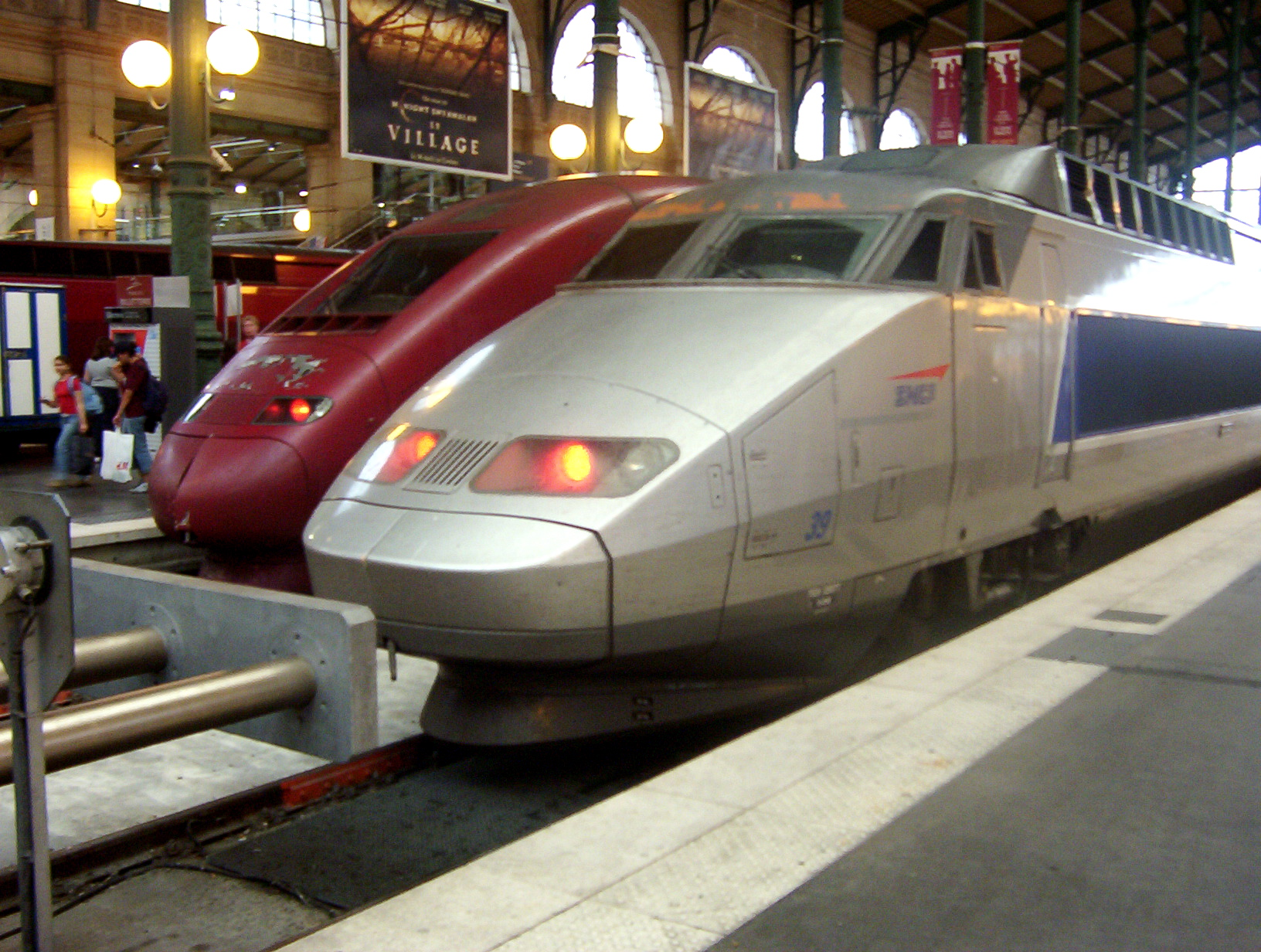 TGV Sud-Est and Thalys PBKA at Paris Gare du Nord. Willkm 00:49, 4 December 2005 (UTC)